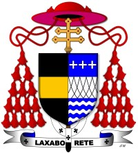 Coat of arms of František Cardinal Tomášek, Archbishop of Prague